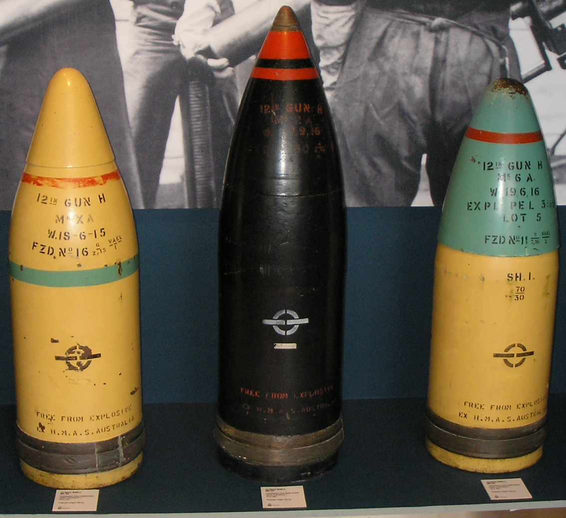 Three of HMAS Australia's 12 inch gun shells on display at the Royal Australian Navy's museum at Garden Island in Sydney. Left to Right : Mk XA Capped Armour-Piercing shell filled with Trotyl (TNT) Shrapnel Mk 6A Capped Common-Pointed shell filled with Shellite 70/30 This is a clip of larger image : Image:HMAS Australia shells.JPG.